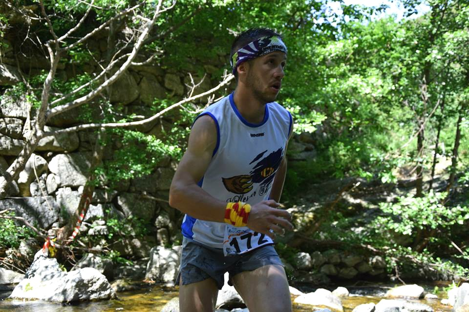 A sky runner during a SkyRace